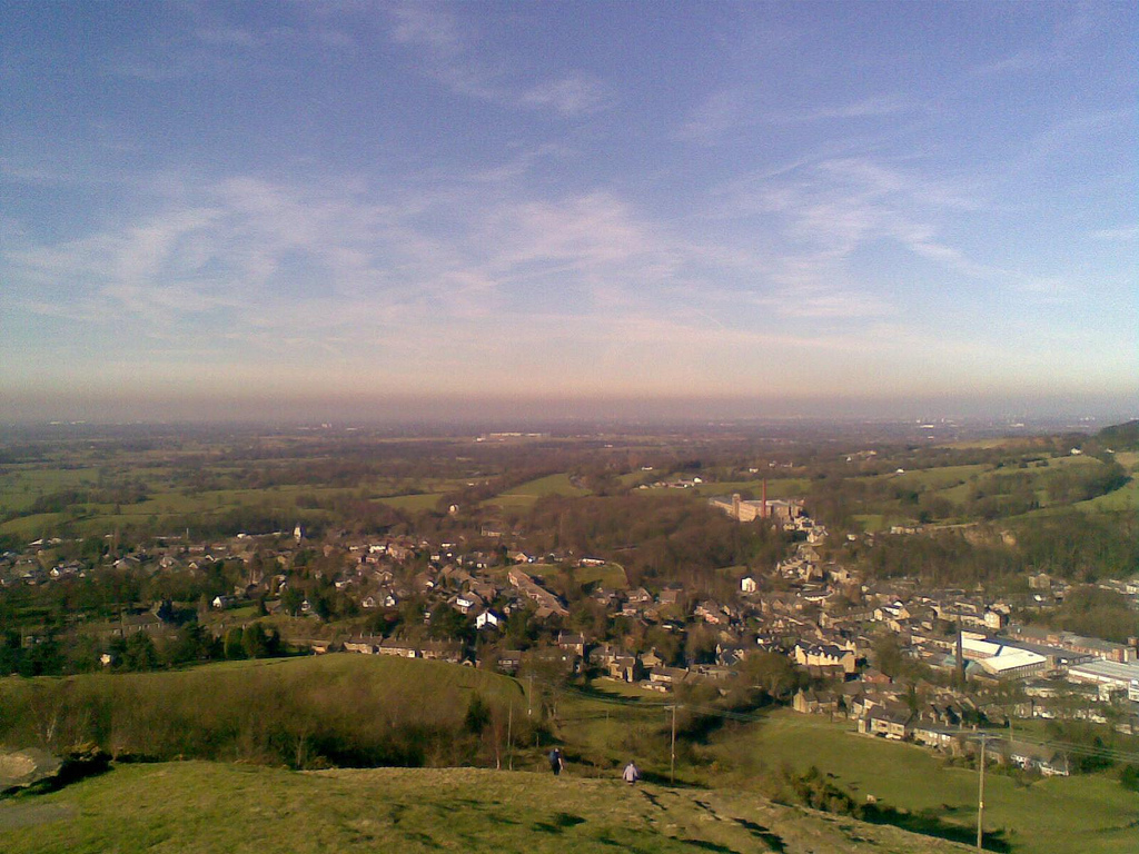 The fantastic view from "White Nancy" across Bollington towards Stockport and Manchester, England.